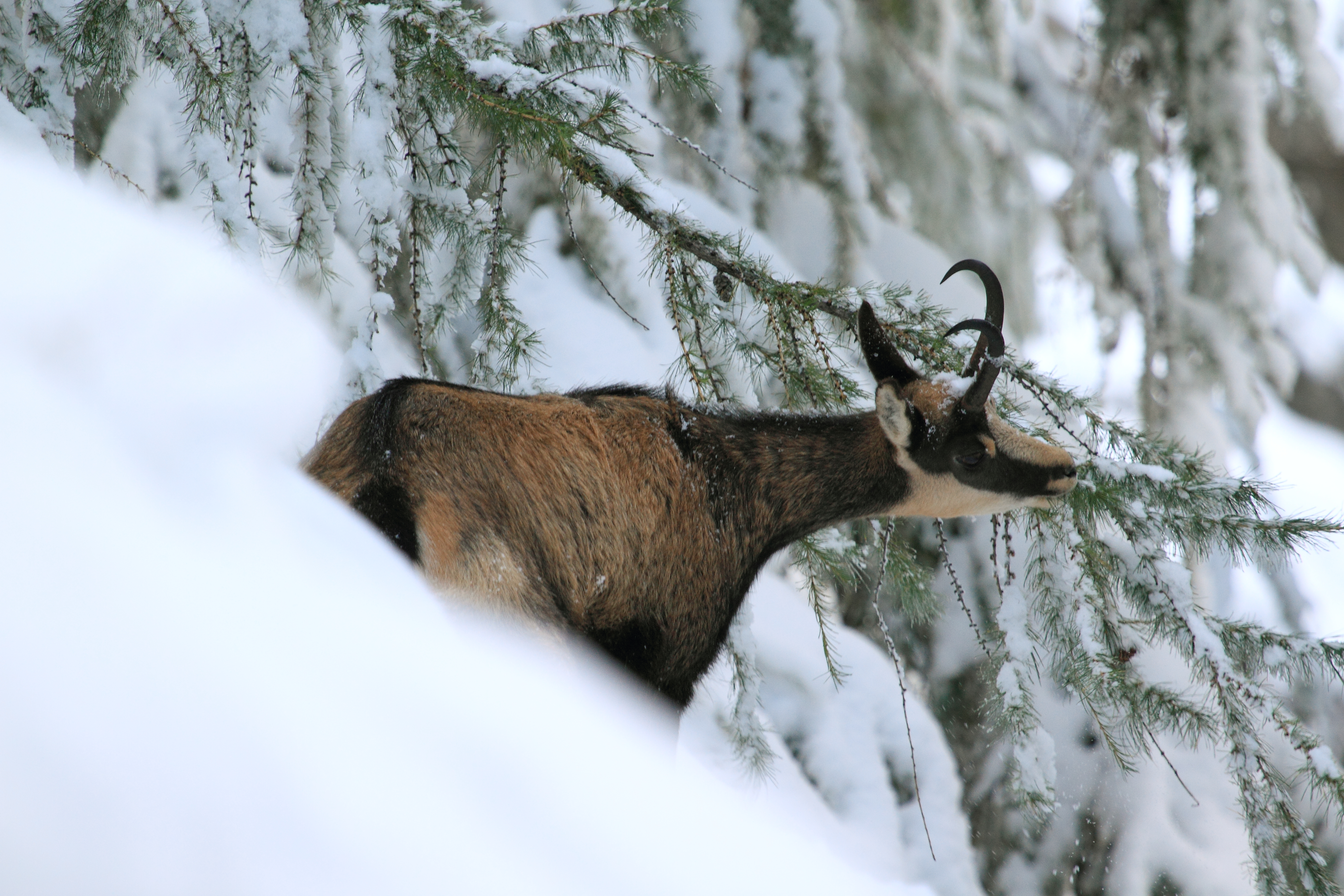 The search for food